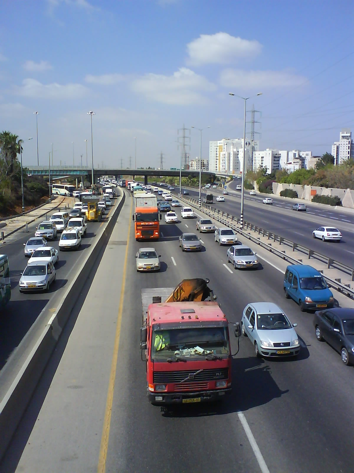 Heavy morning traffic on northbound Geha Highway at Bar Ilan Interchange. The picture was taken from the pedestrian bridge, looking south.